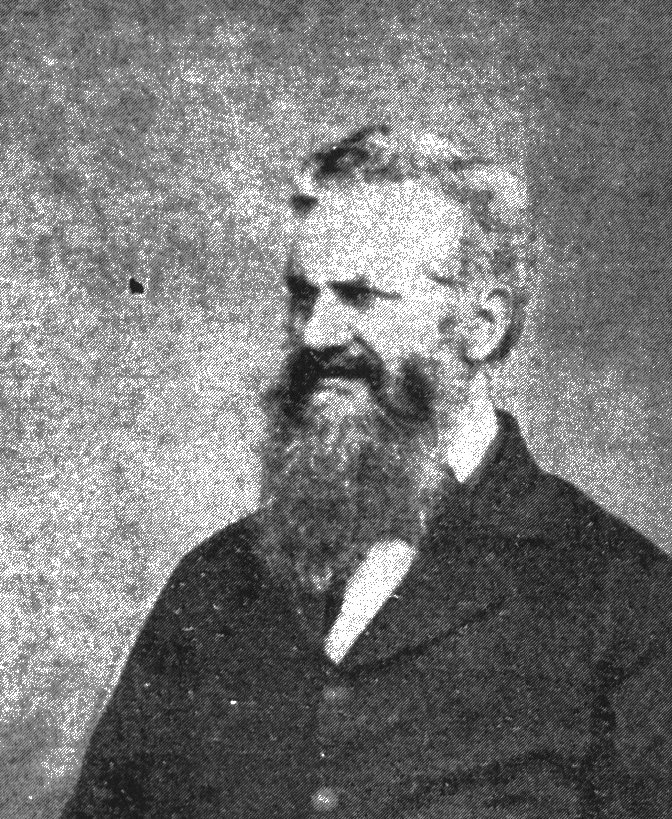 Andrew Scott Waugh, Bengal Engineers. From a group photo of the Survey of India taken in Calcutta on March 1861.